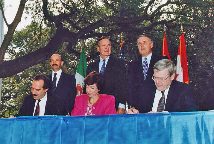 NAFTA Initialing Ceremony, October 1992 From left to right (standing) Mexican President Carlos Salinas de Gortari, US President George H. W. Bush, Canadian Prime Minister Brian Mulroney. (Seated) Mexican Secretary of Commerce and Industrial Development Jaime Serra Puche, United States Trade Representative Carla Hills, Canadian Minister of International Trade Michael Wilson.